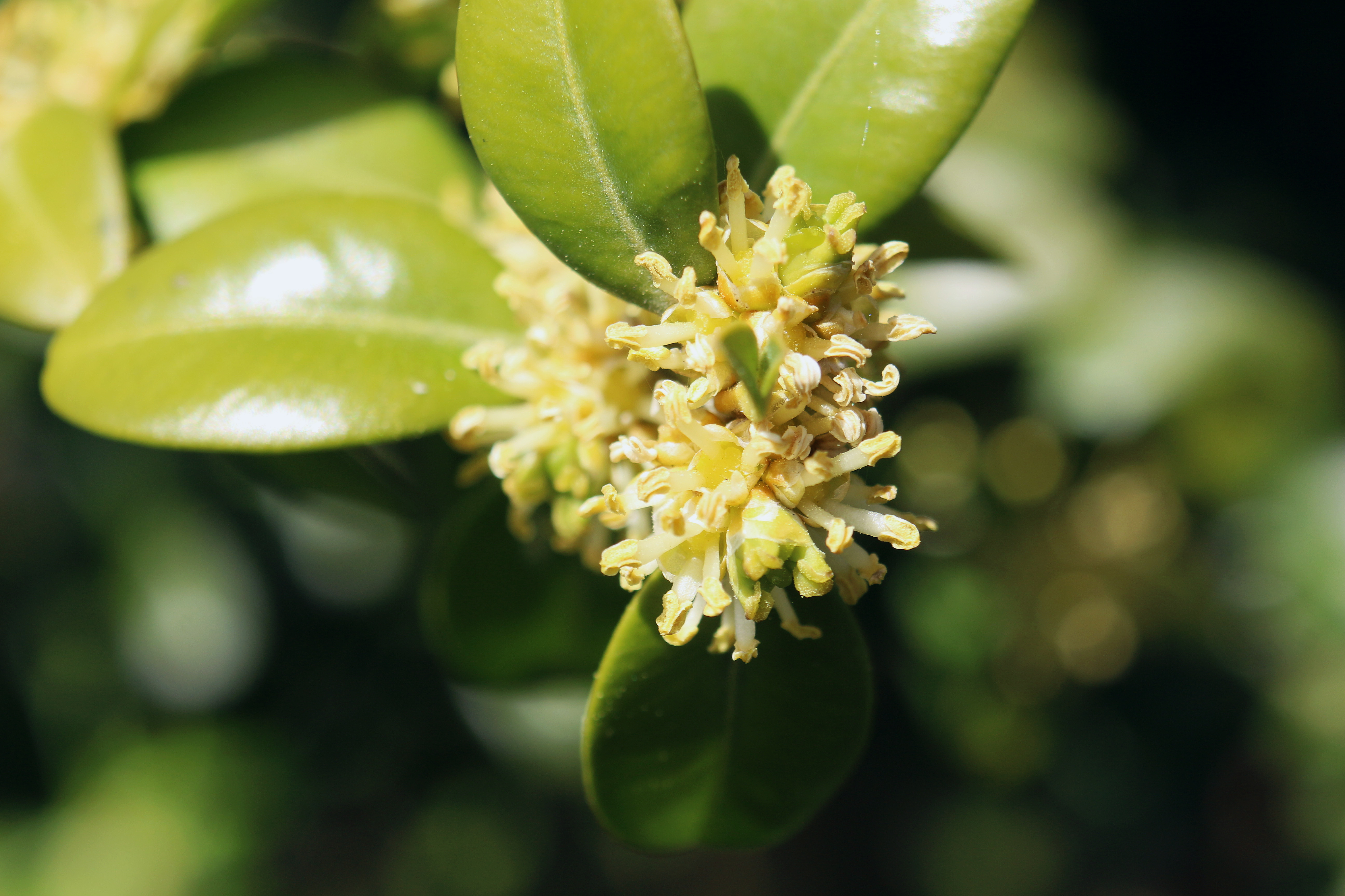 Buxus sempervirens, inflorescence.